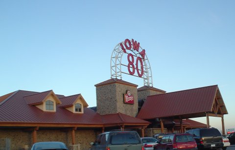 The Iowa 80 Truck Stop near Walcott, Iowa. I took this picture in February of 2006. Jesster79 00:55, 7 February 2006 (UTC)